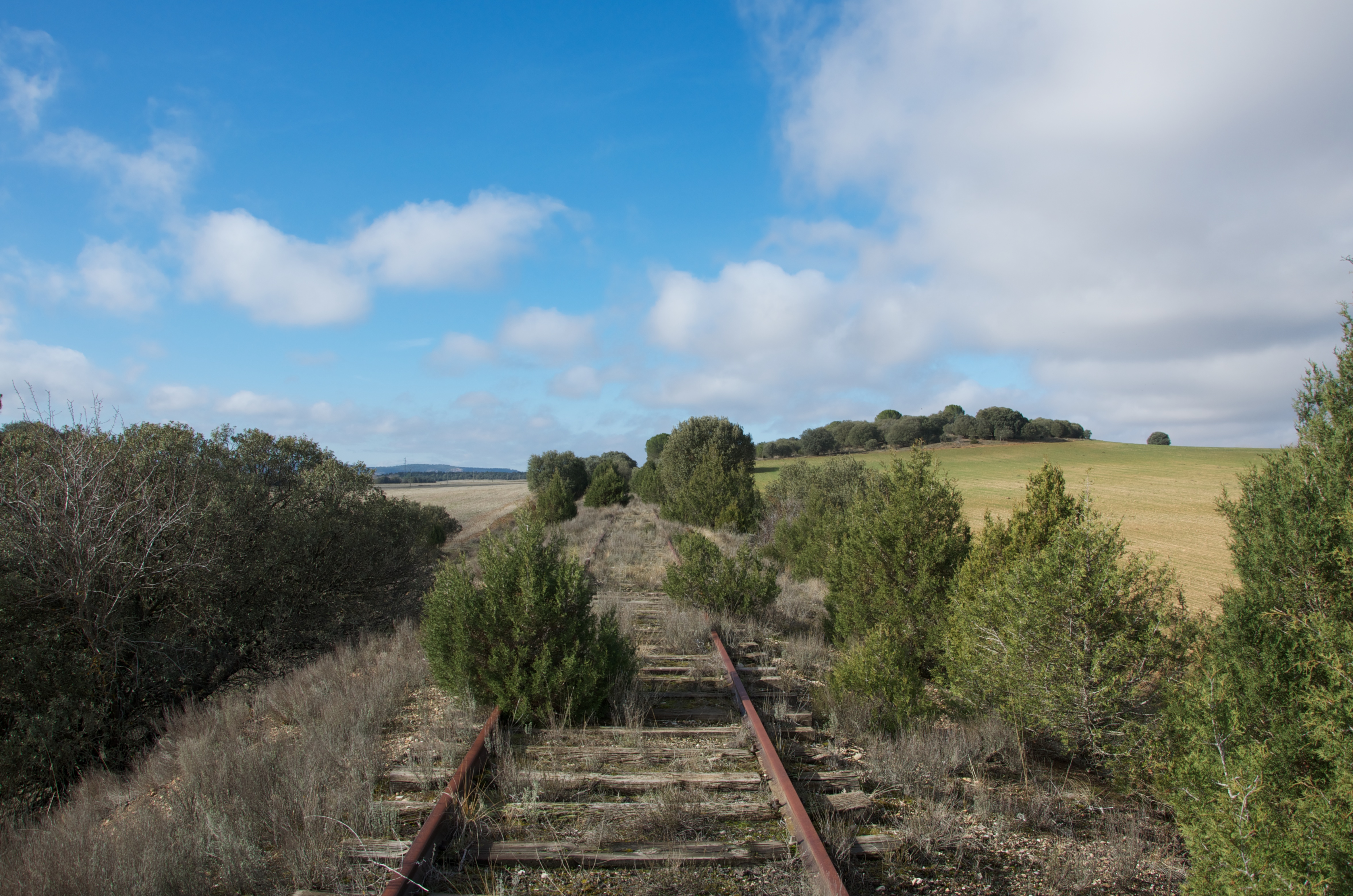 Former Valladolid - Ariza railway line, in the proximities of El Burgo de Osma (Castilla y León, Spain).